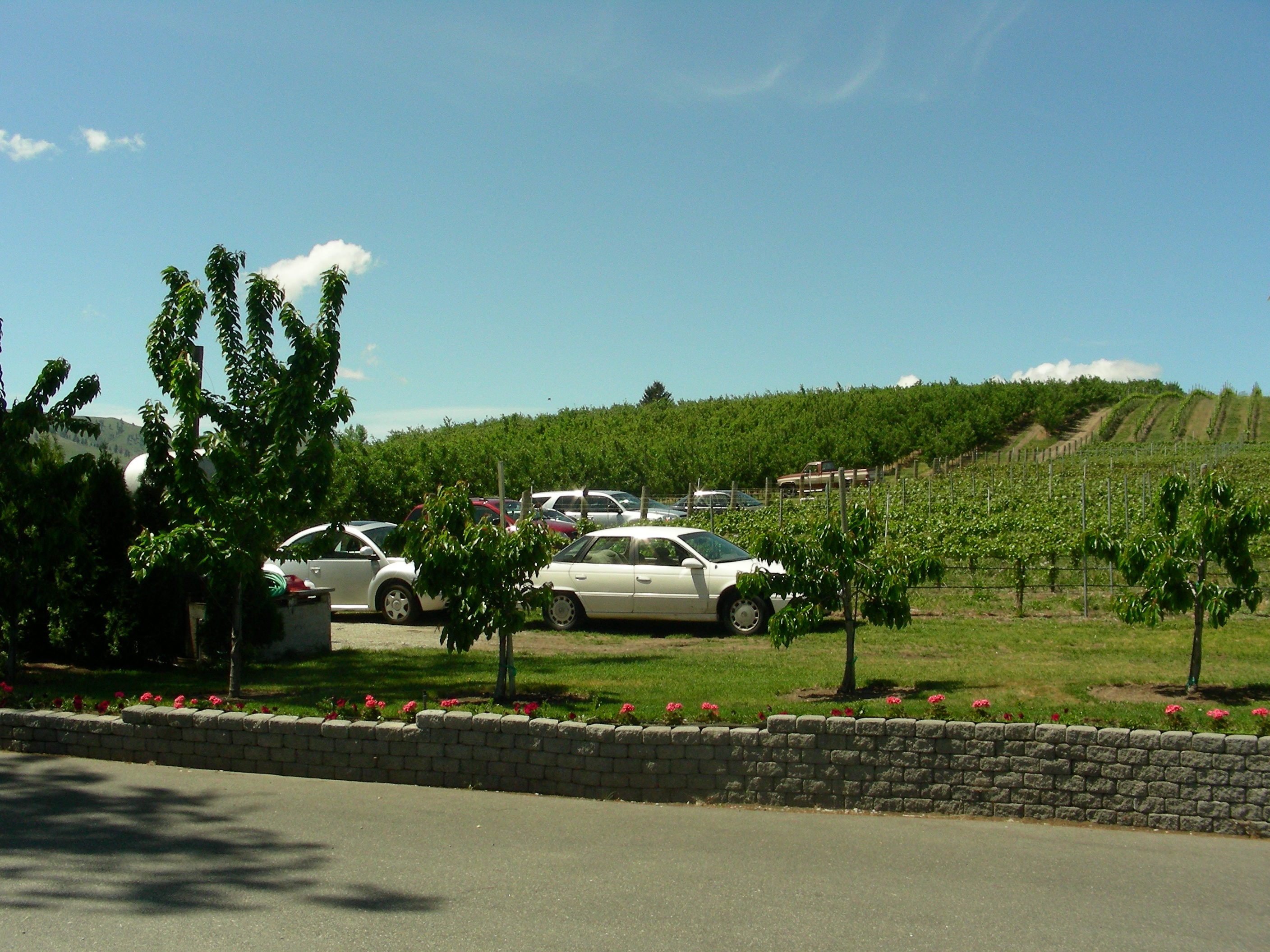 Vin du Lac Winery Orchard and Vineyard in the Lake Chelan AVA of Washington State